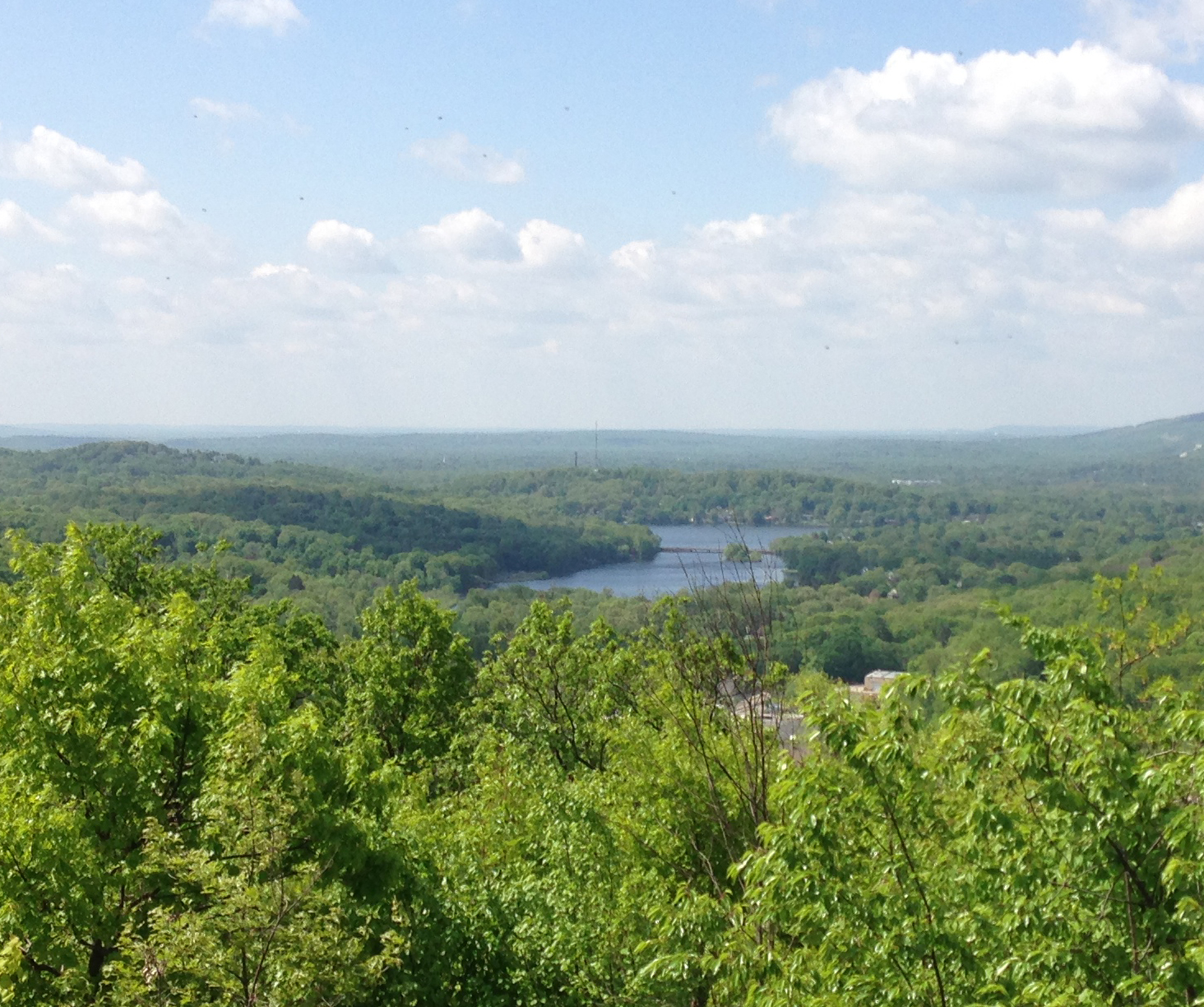 Pompton Lake viewed from the Lookout Trail in Ramapo Mountain State Forest, New Jersey